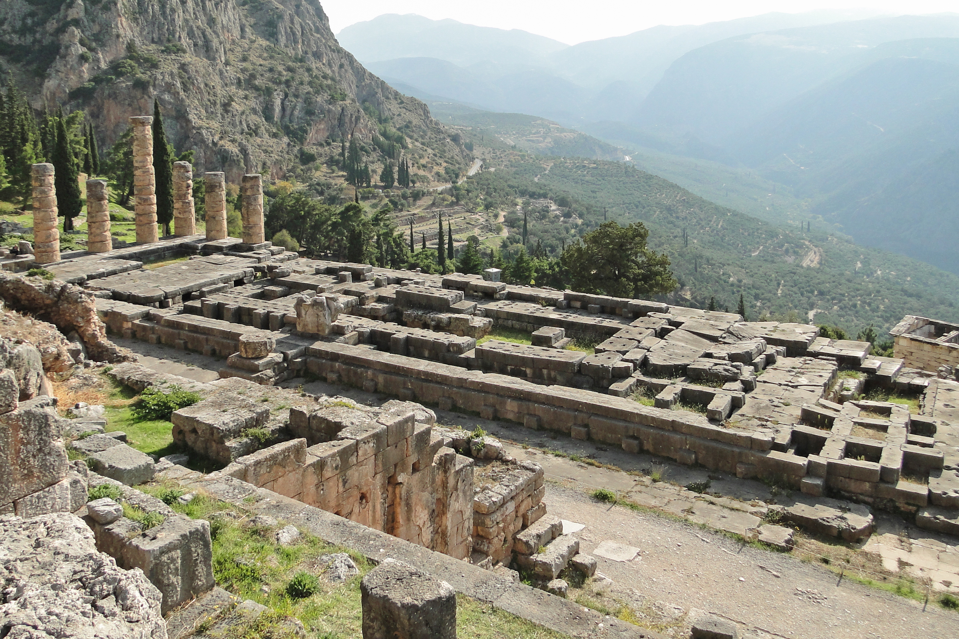 Temple of Apollo in Delphi, Greece